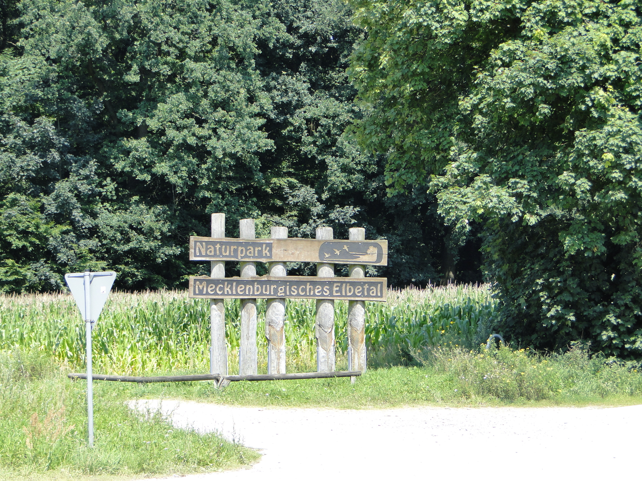 Sign "Naturpark Mecklenburgisches Elbetal" southwest of Setzin, district Ludwigslust-Parchim, Mecklenburg-Vorpommern, Germany